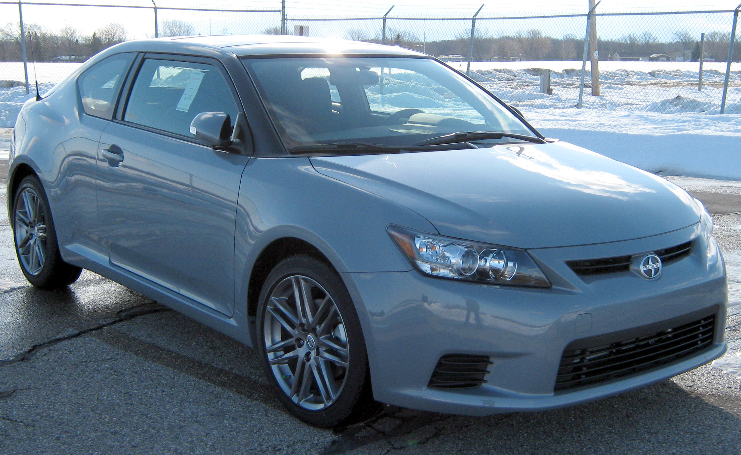 2011 Scion tC photographed in USA.